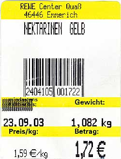 Price tag for fruit with an European Article Number barcode